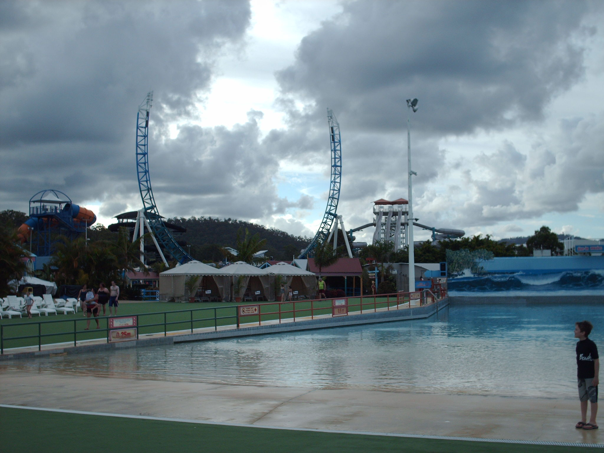 Looking across the Giant Wave Pool towards the SurfRider and the Extreme H2O Zone at Wet'n'Wild Water World.